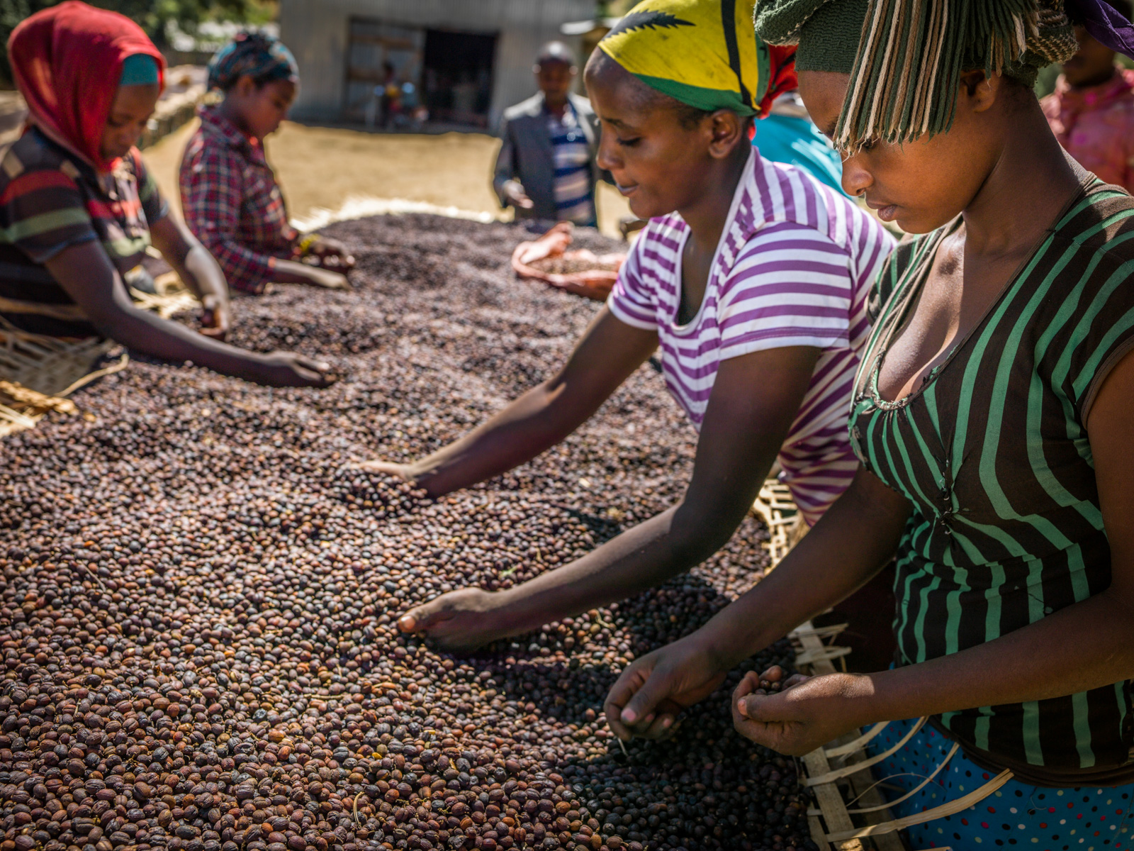 Coffee sorting process, near Hawassa This is an image of "African people at work" from Ethiopia